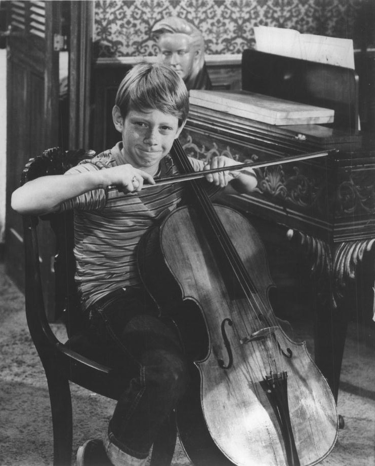 Publicity photo of American child actor, Billy Mumy promoting the 1965 feature film Dear Brigitte.